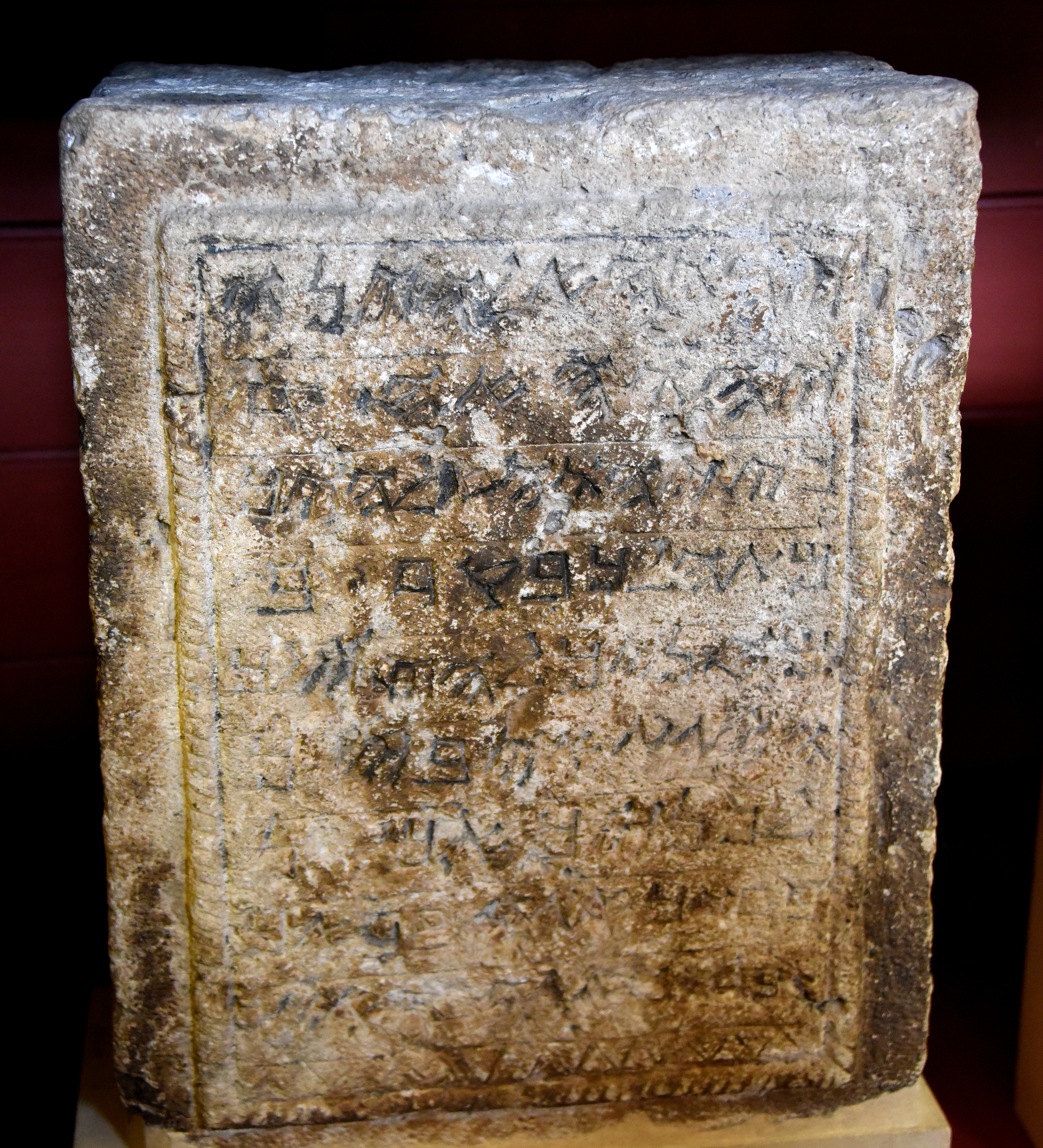 This was probably a doorway inscription (Mezuza); Hebrew in archaic Samaritan text, 9 lines. The British Museum says that the portion of the Bible mentioned is "Deut. VI.4, XXIII.15, XXVIII:6". In late 19th century, it was thought this was "Deut. VI.7". Circa 13th century CE. From Nablus, West Bank, modern-day Palestinian Territories. It is currently housed in the British Museum in London.